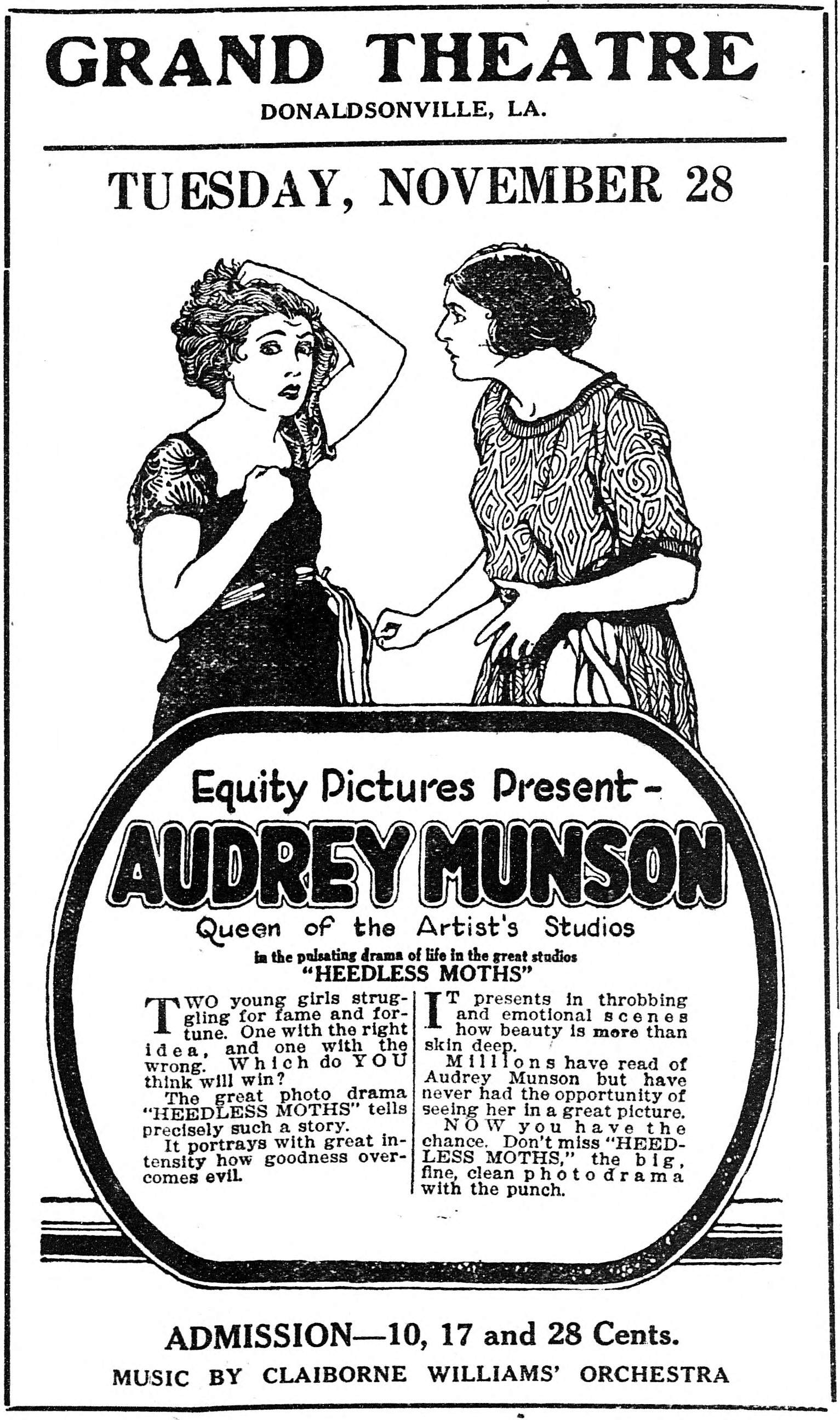 Heedless Moths is a 1921 American silent melodrama film written and directed by Robert Z. Leonard. This is a newspaper advertisement for the film.